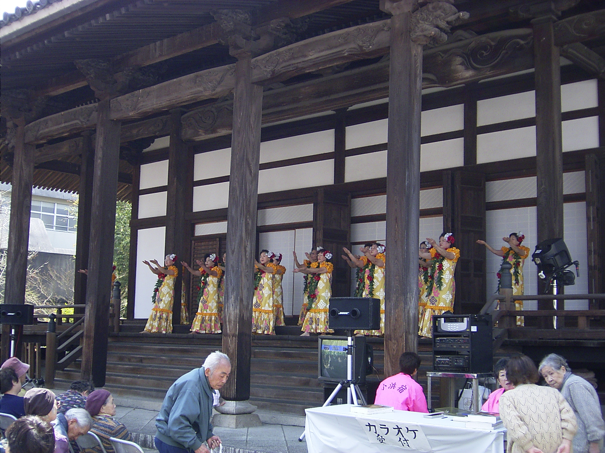 Main Hall of Gosho-ji temple, Takarazuka, Hyogo, Japan